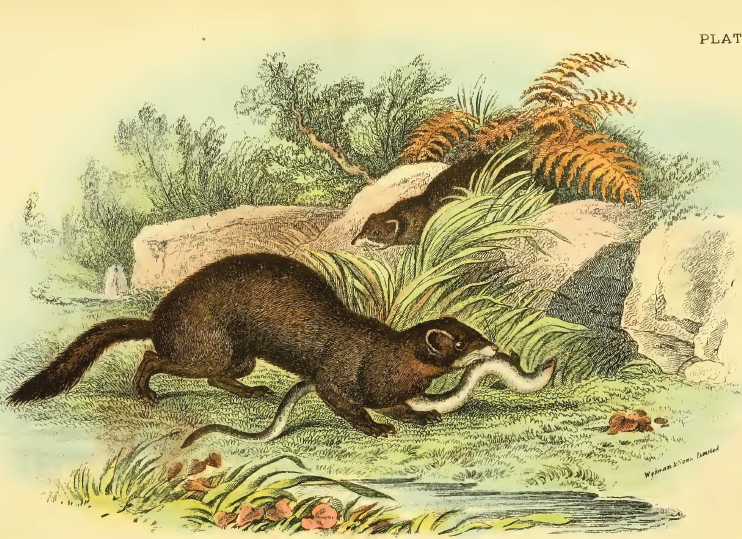 Illustration of a European polecat eating a common eel